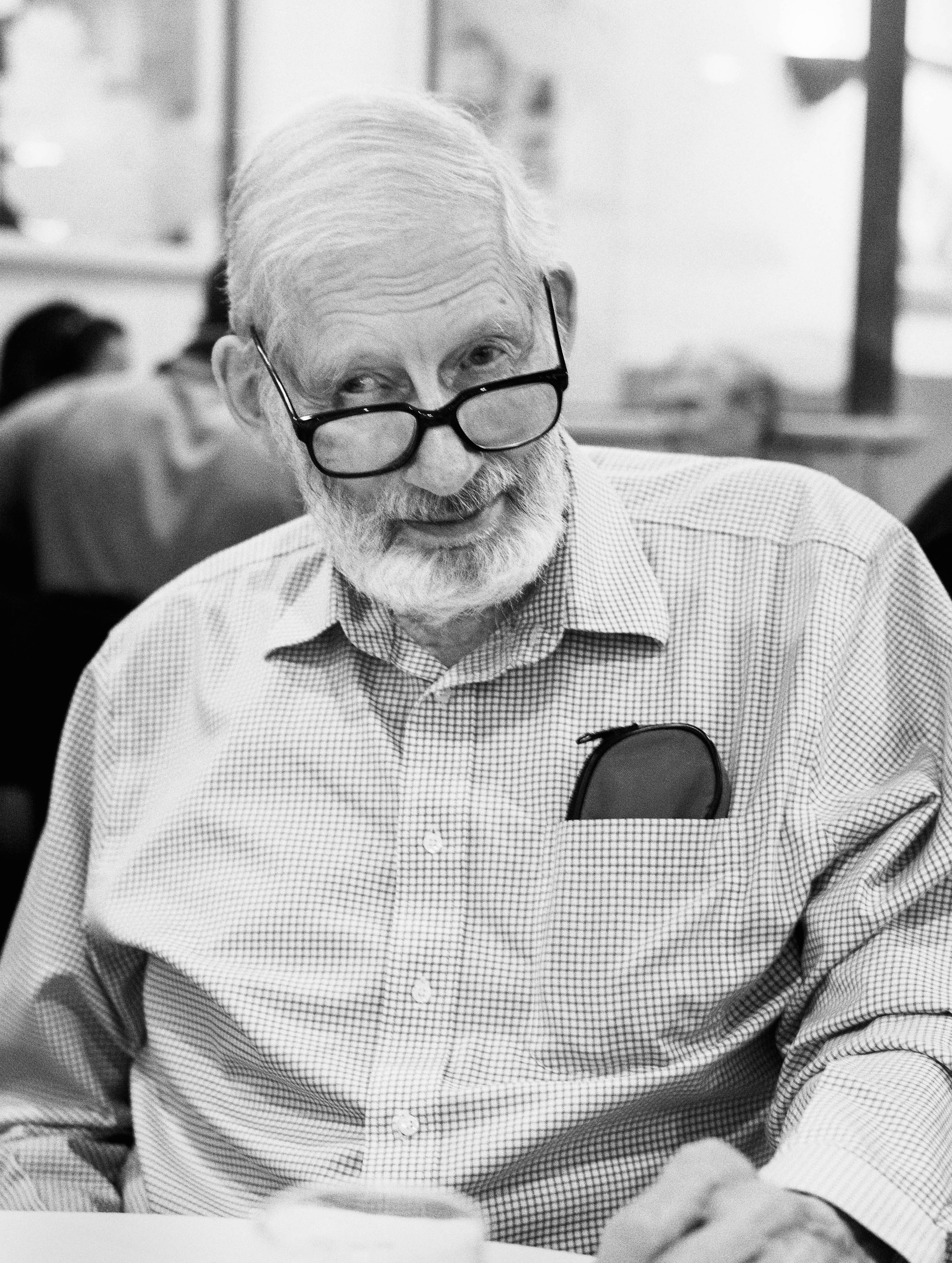 American sinologist David Nivison (1923-2014), photo courtesy of George Zhijian Qiao